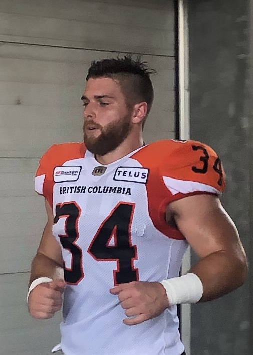 David Mackie, fullback for the BC Lions.